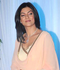 Sushmita Sen at Esha Deol's wedding reception